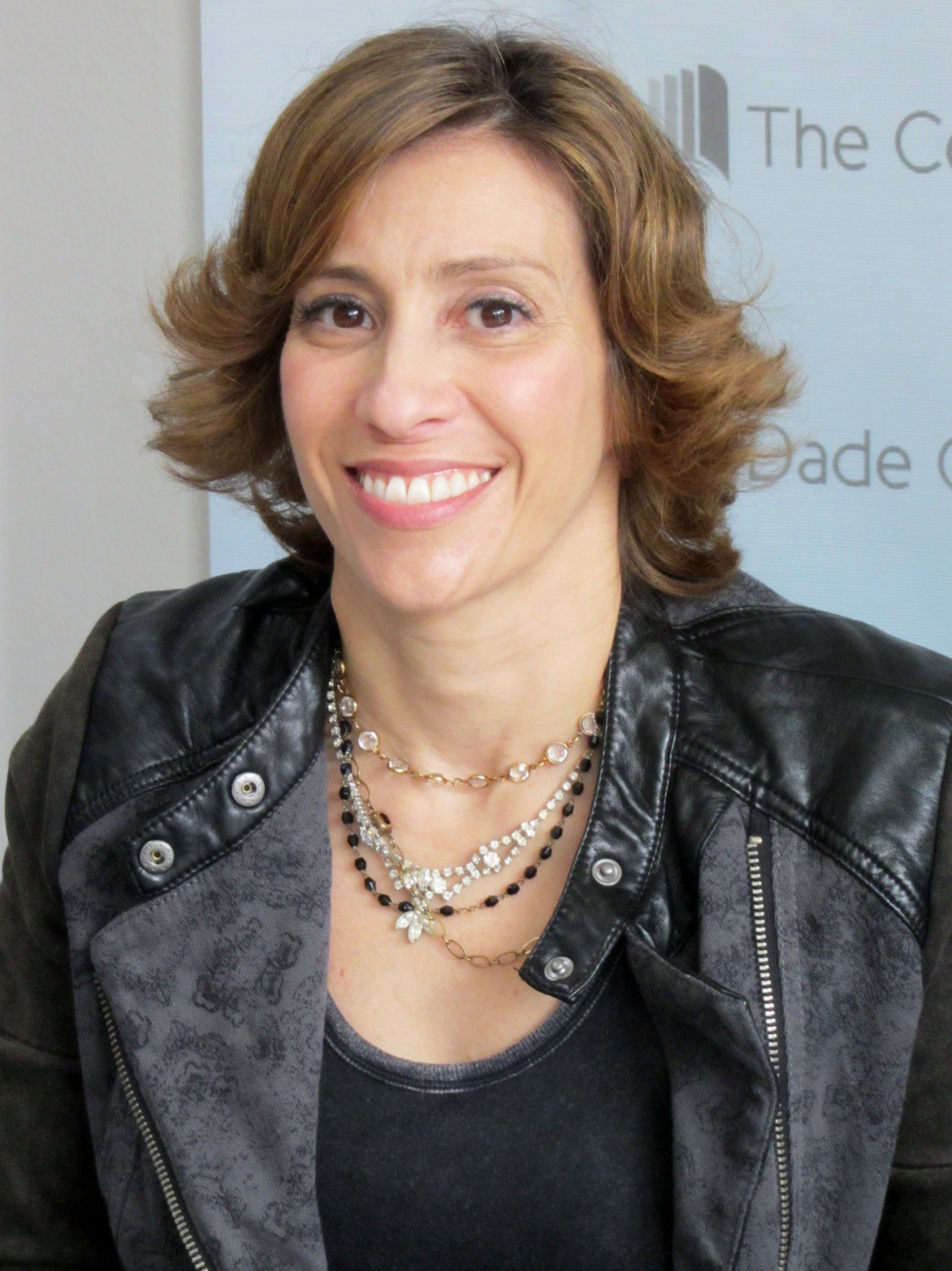 American writer Kami Garcia at the Miami Book Fair International 2014